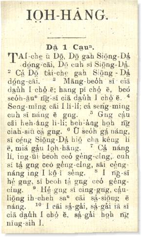 Gospel of John, Hinghwa (Xinghua/Puxian) Bible.